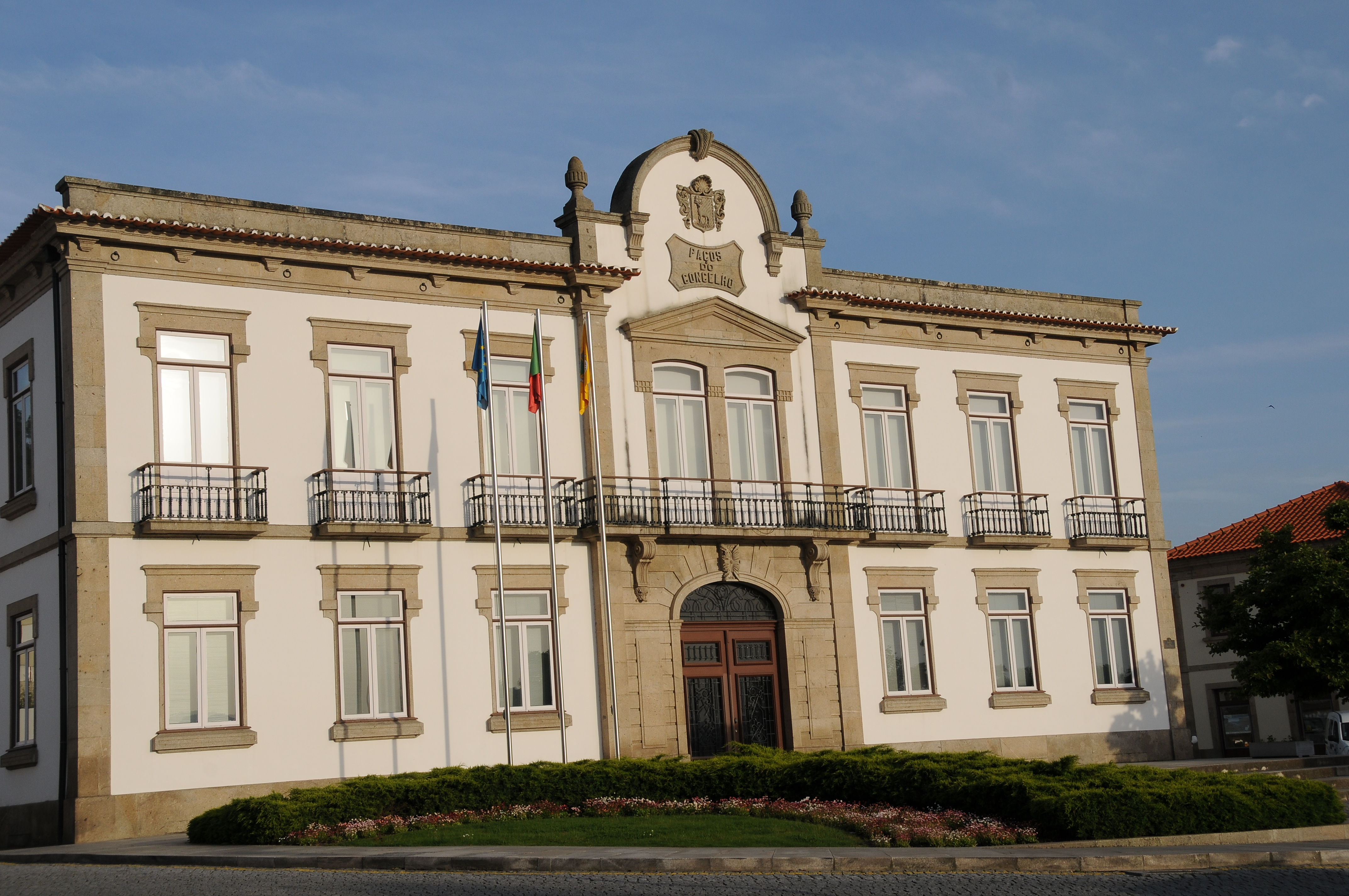 Town Hall in Vila Nova de Cerveira, Portugal.